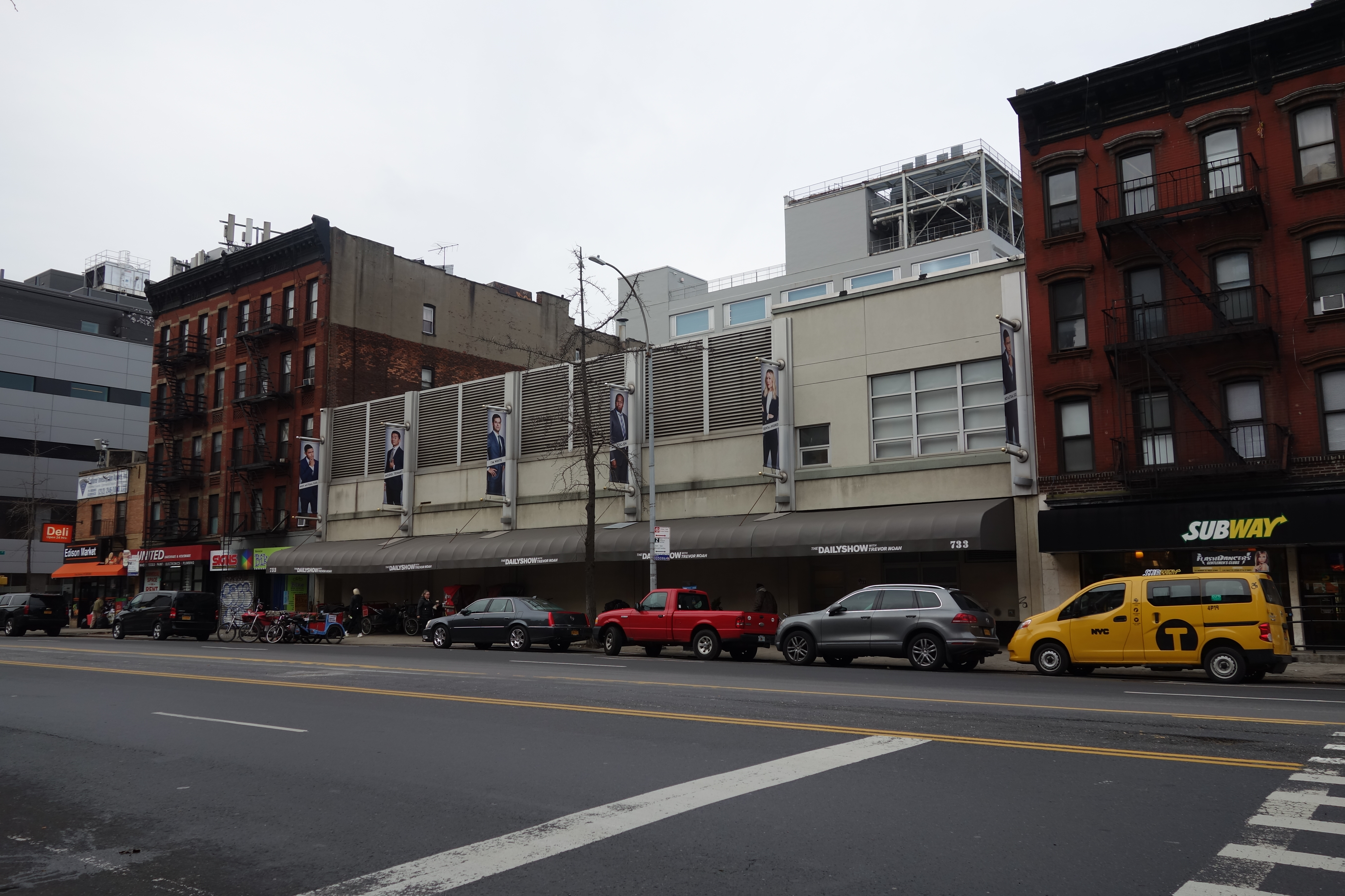 Looking west at the studios for The Daily Show with Trevor Noah, at the southwest corner of 11th Avenue and 52nd Street in Hell's Kitchen, Manhattan. The building to the right is 600 West 52nd Street.